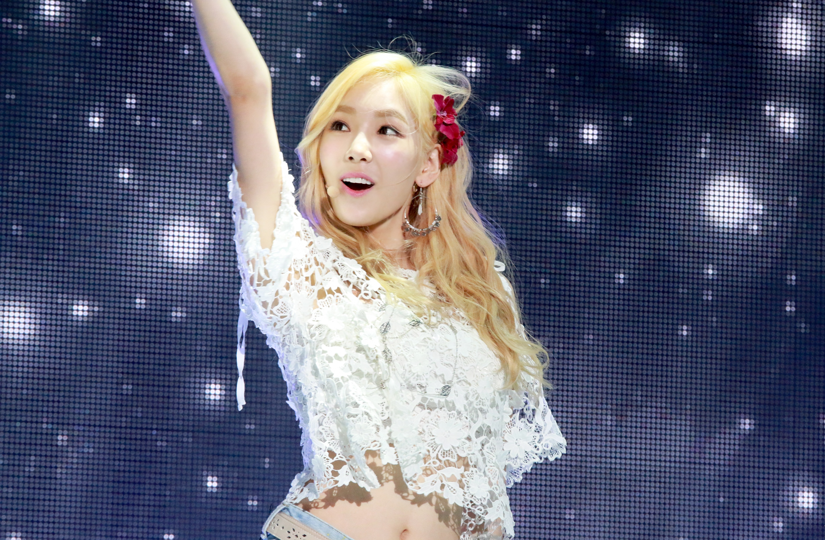 Taeyeon at Party Showcase on July 7, 2015.